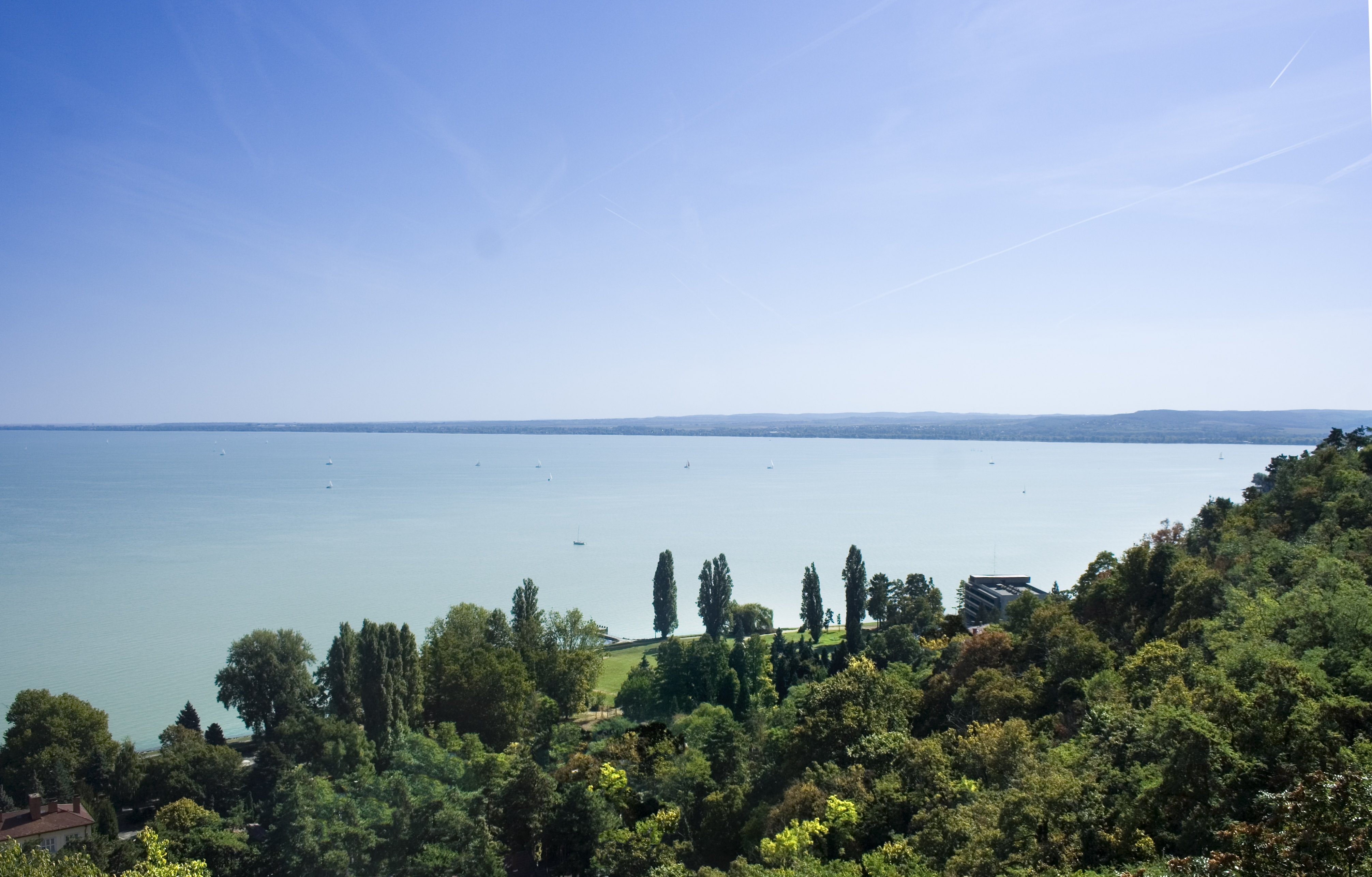 Lake Balaton at Tihany, Hungary